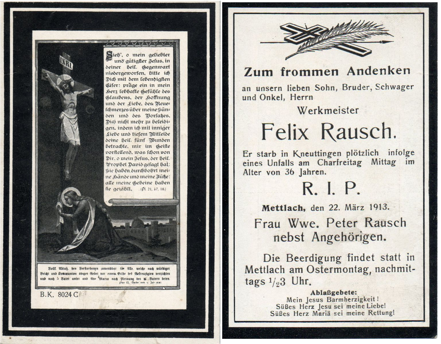 In memoriam card from 1913